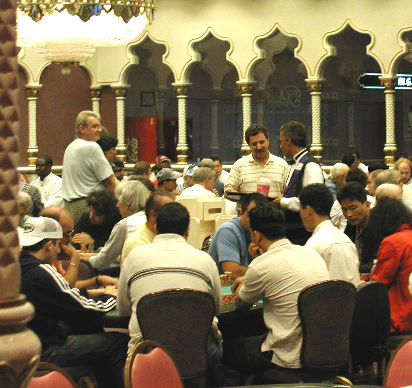 The poker tables in the Trump Taj Mahal